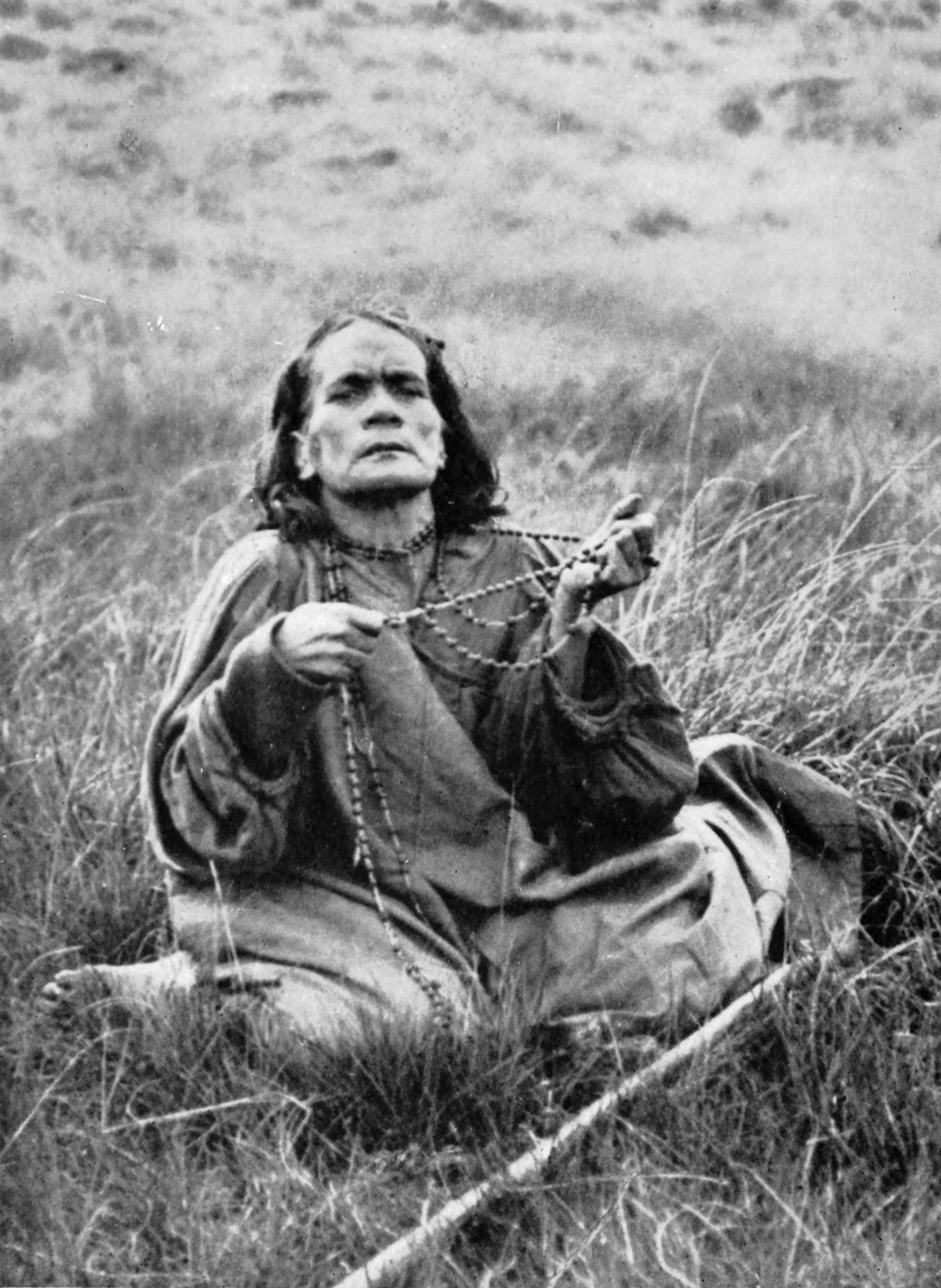 Angata a Roman Catholic catechist who developed a cultic following and was regarded to be a prophetess, or, rather, a witch. Photograph taken in 1914, published in 1919.